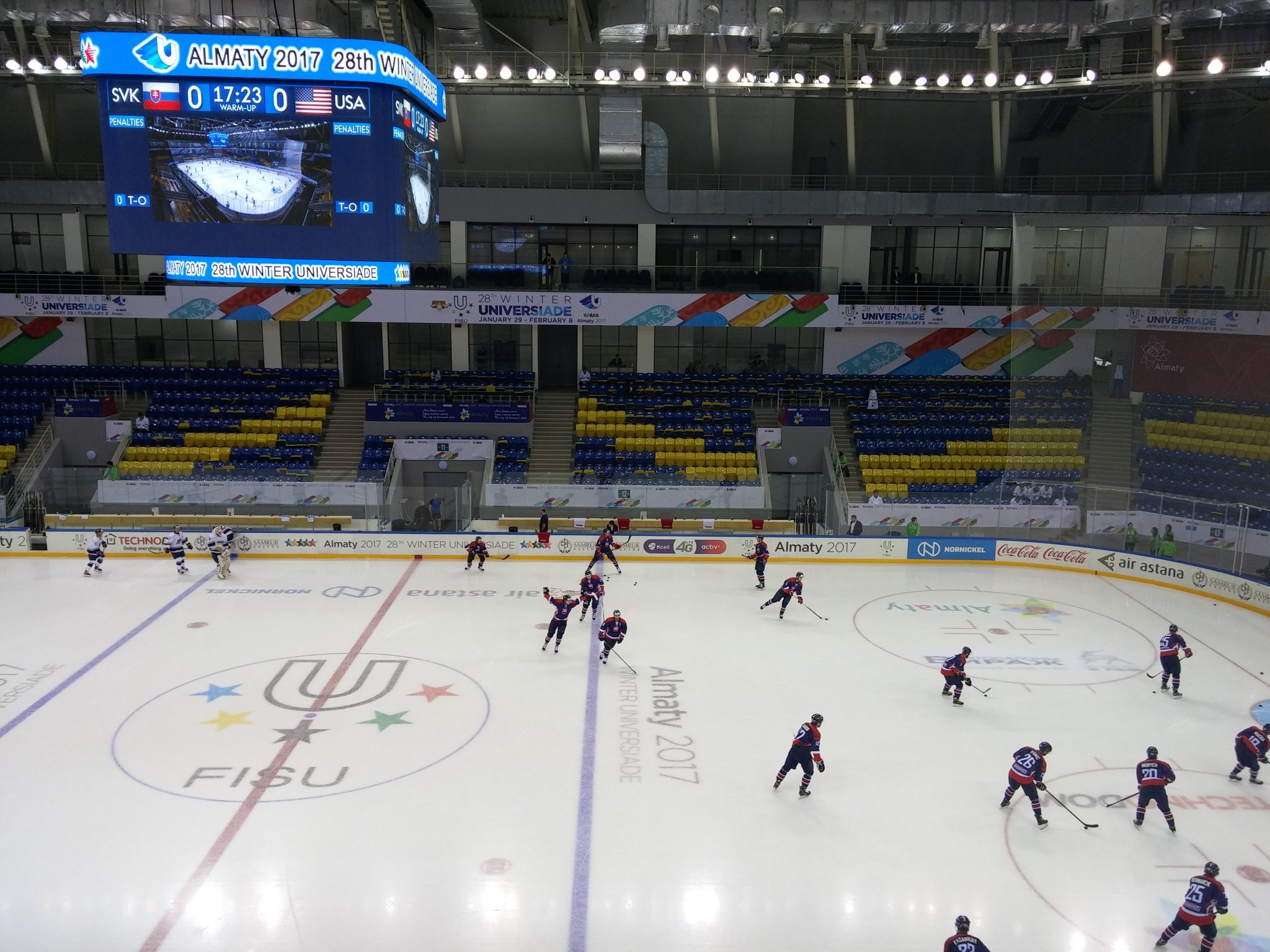 Interior photo of Halyk Arena in Almaty, Kazakhstan